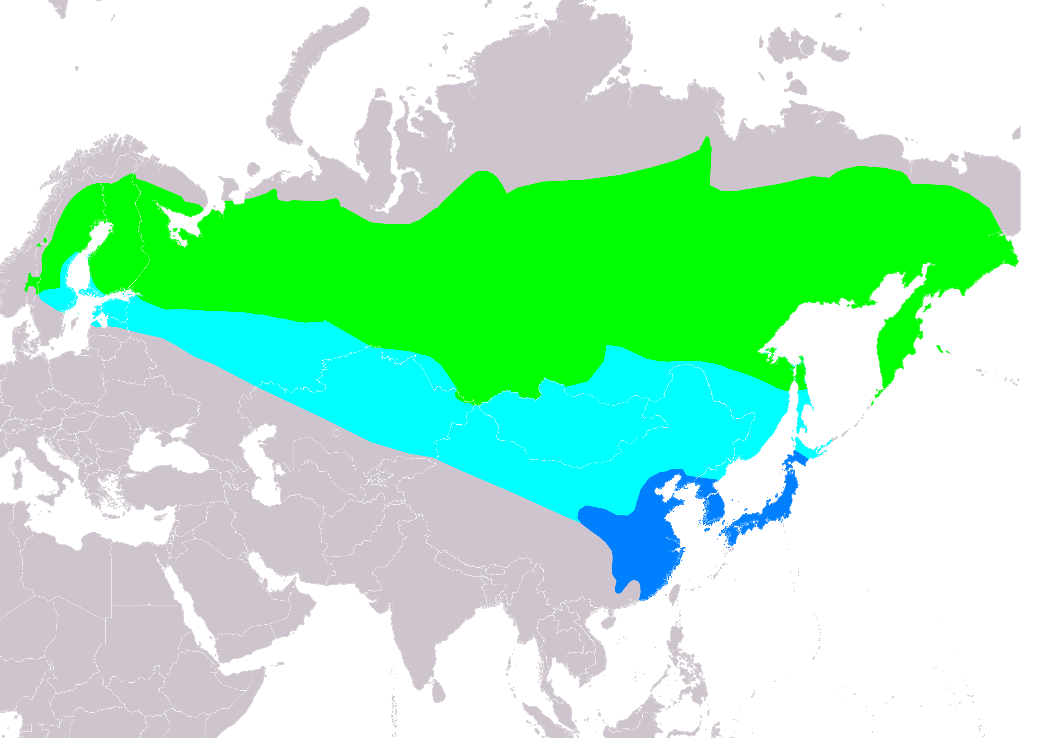 Distribution map of rustic bunting (Emberiza rustica) according to IUCN version 2019.2; key: Legend: Extant, breeding (#00FF00), Extant, passage (#00FFFF), Extant, non-breeding (#007FFF)